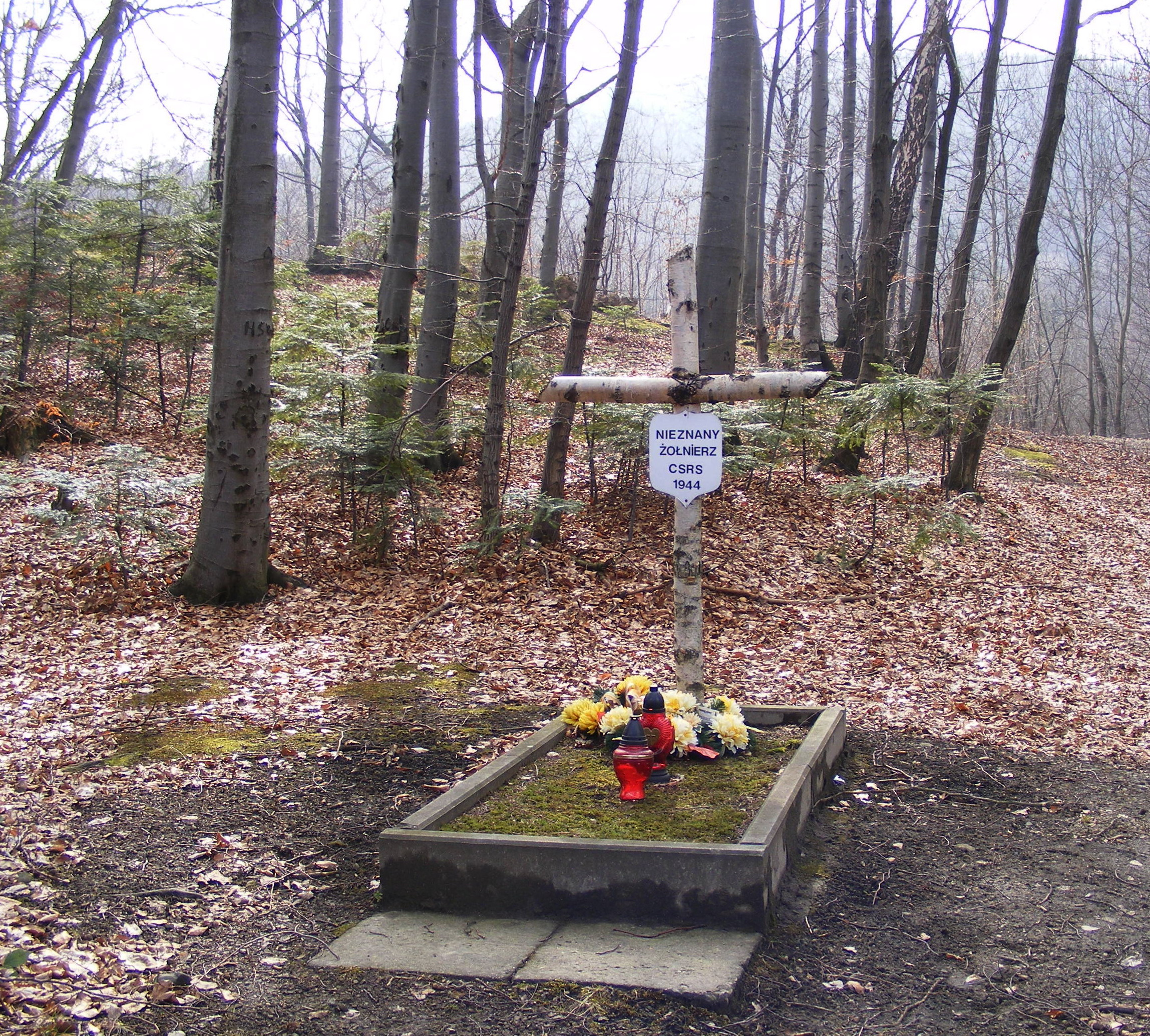 Tomb of unknown soldier CSRS